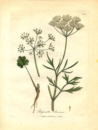 Anise (1. edition, volume 3 (plate 180). Hand-coloured engraving (sheet 172 x 227 mm)